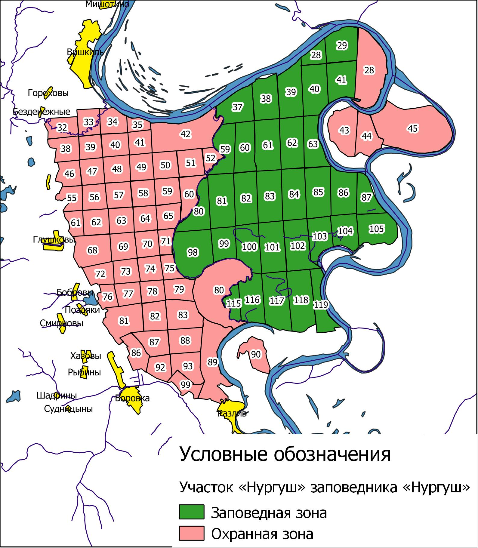 Map of Nurgush Natural reverve